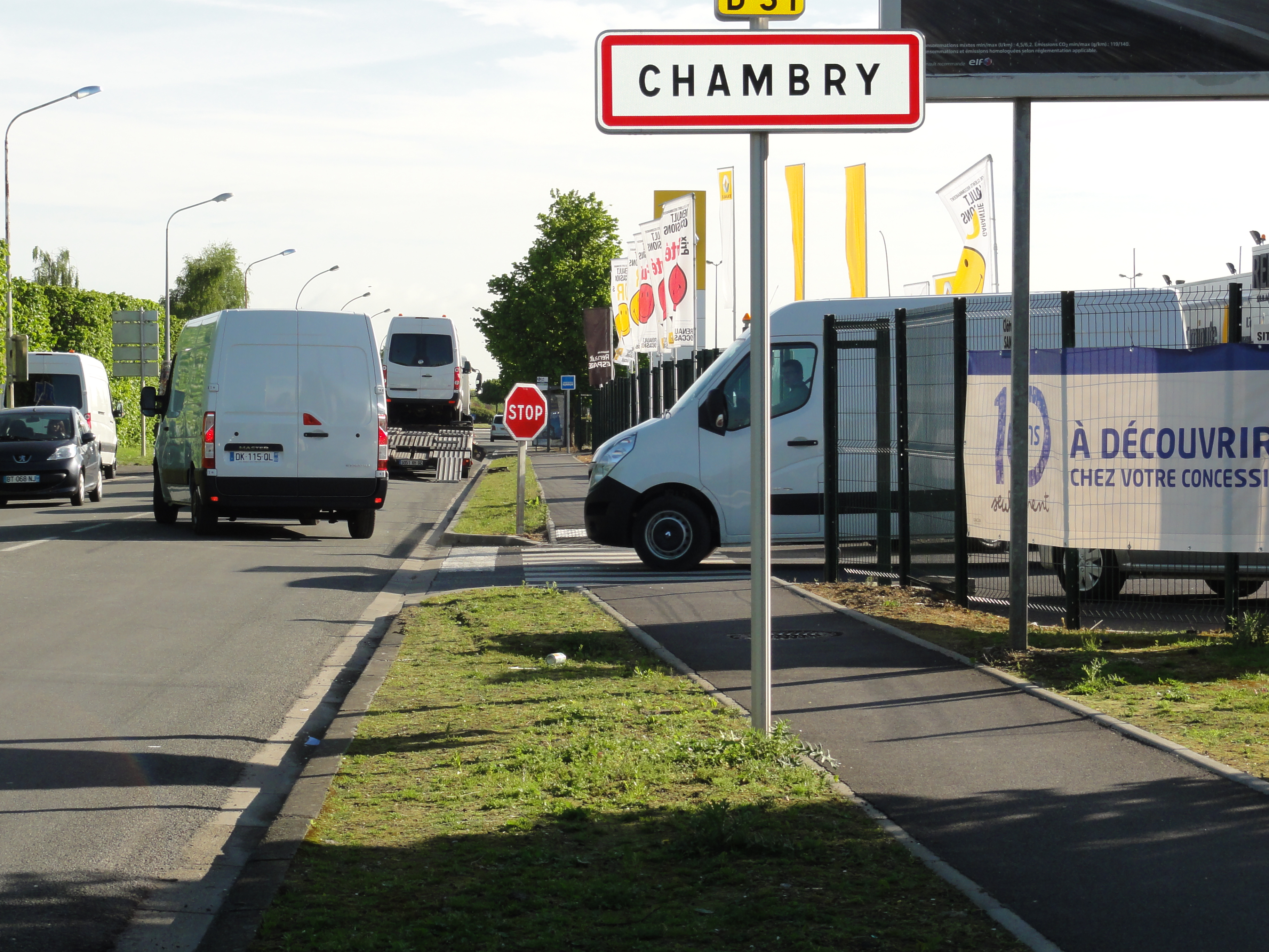 Chambry (Aisne) city limit sign